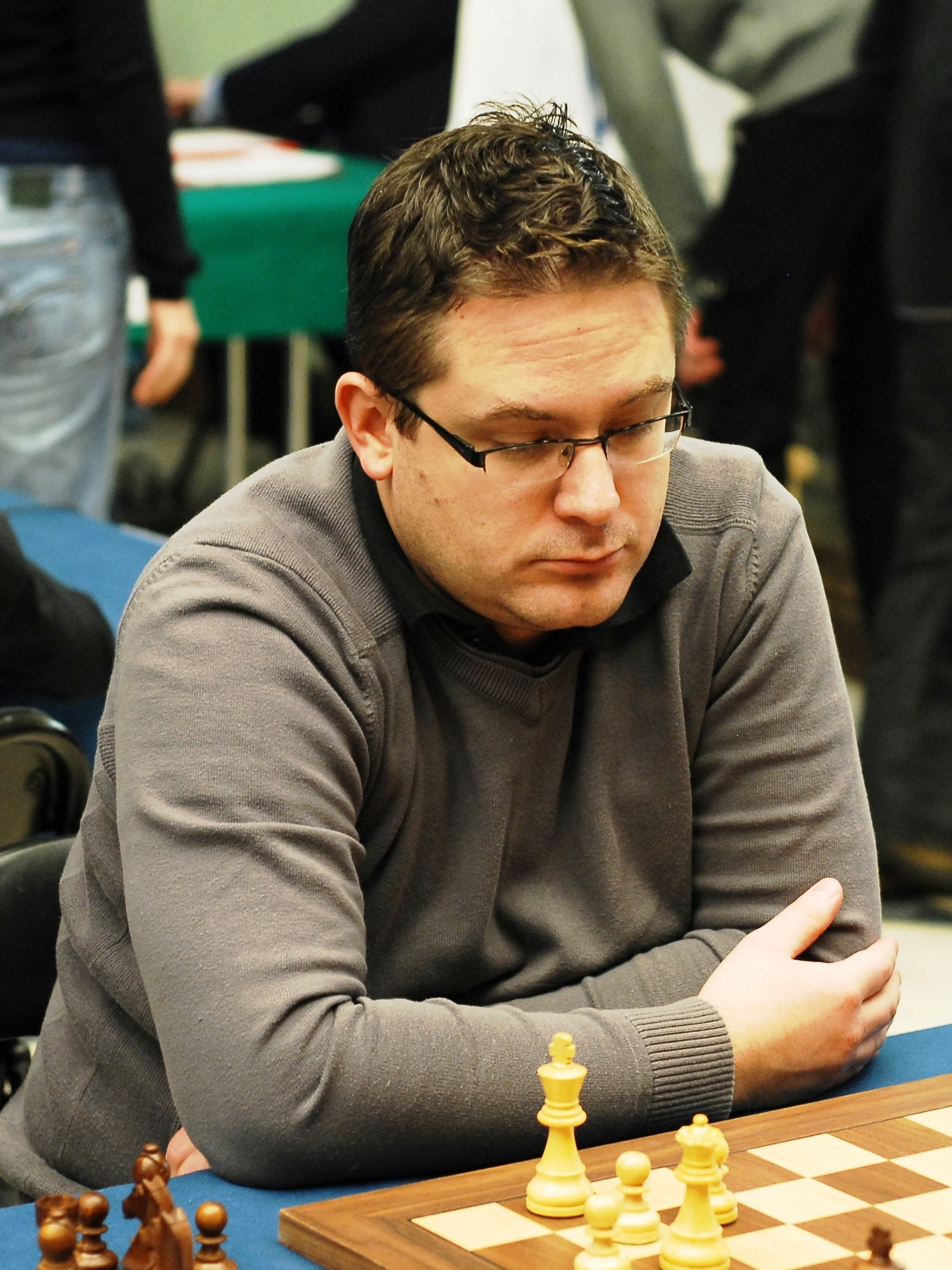 GM Aleksander Miśta, European Rapid Chess Championship, Warsaw 2012.